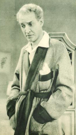 Otto Kruger from the 1934 film, The Crime Doctor Other information for an explanation of the copyright for information regarding public domain